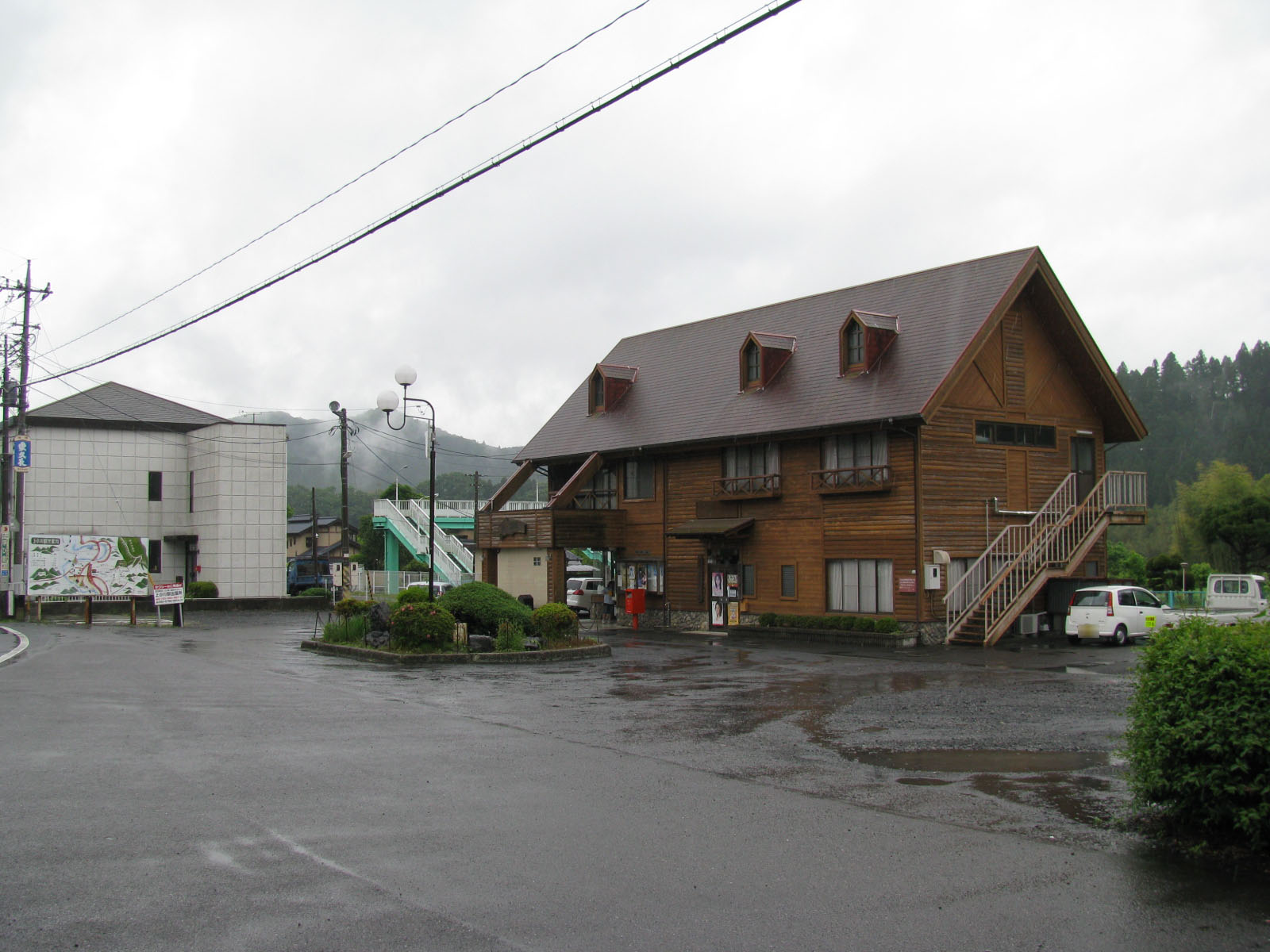 Kamiogawa Station on JR Suigun line.